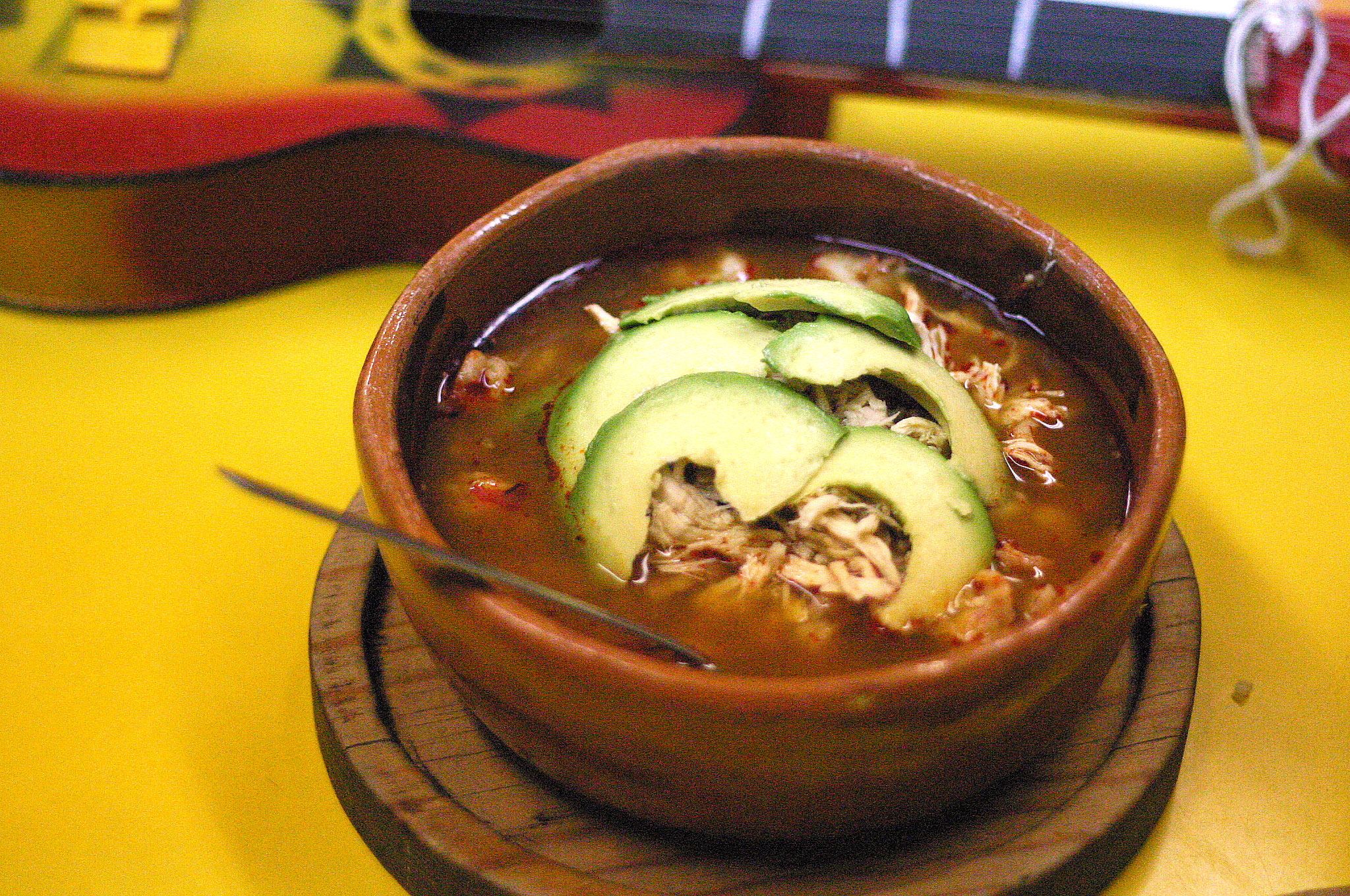 Pozole soup served in clay bowl in Cuernavaca, Mexico, December 2006